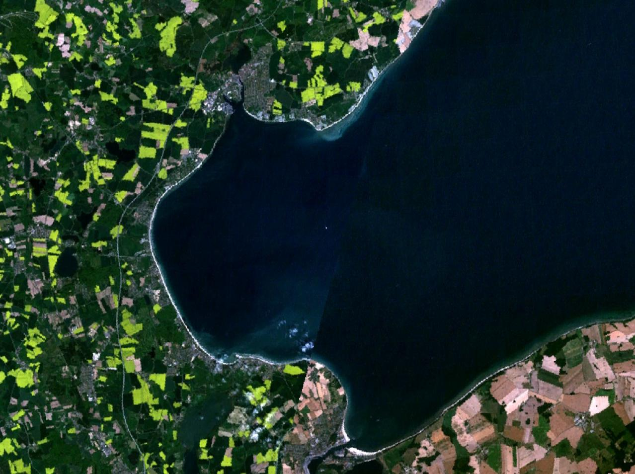 Satellitenbild der Lübecker Bucht